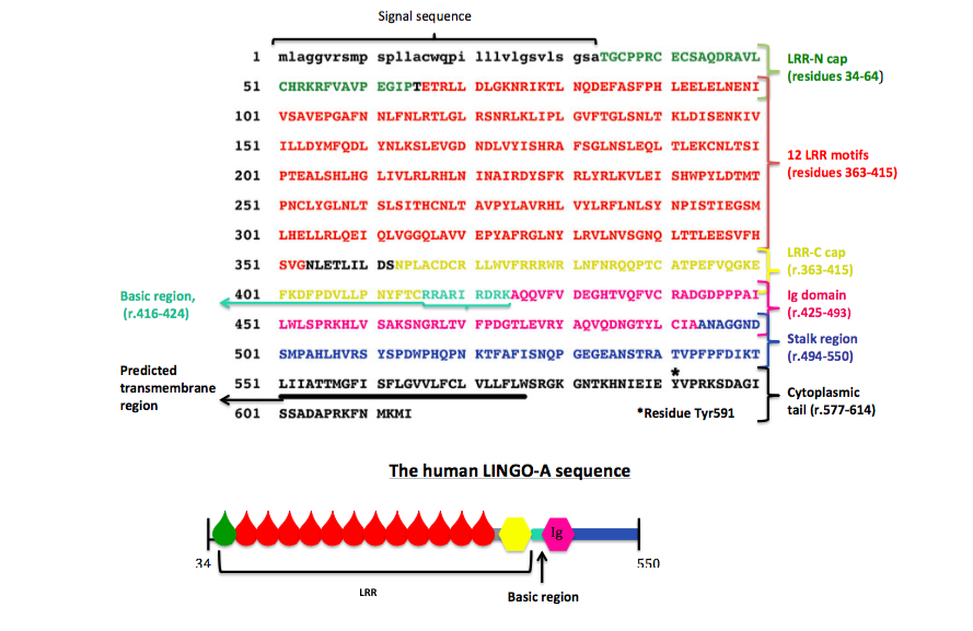 LINGO-1 primary structure